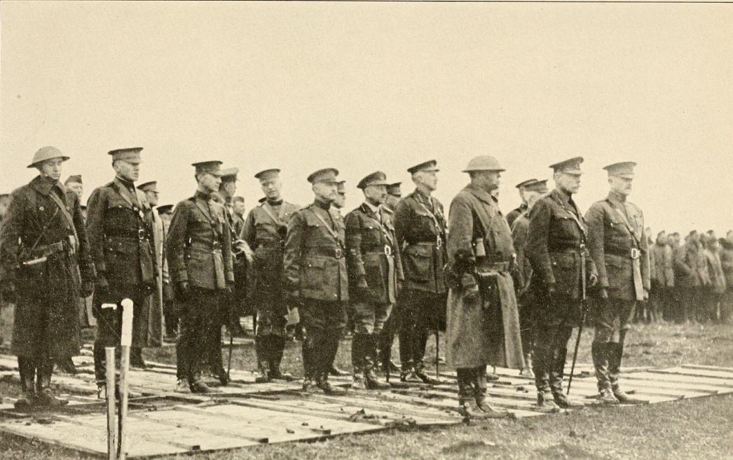 Field Marshal Sir Douglas Haig reviewing the 116th Infantry at Chaumont. General Pershing is to his left while Colonel Ball of the 116th Infantry is on his right.